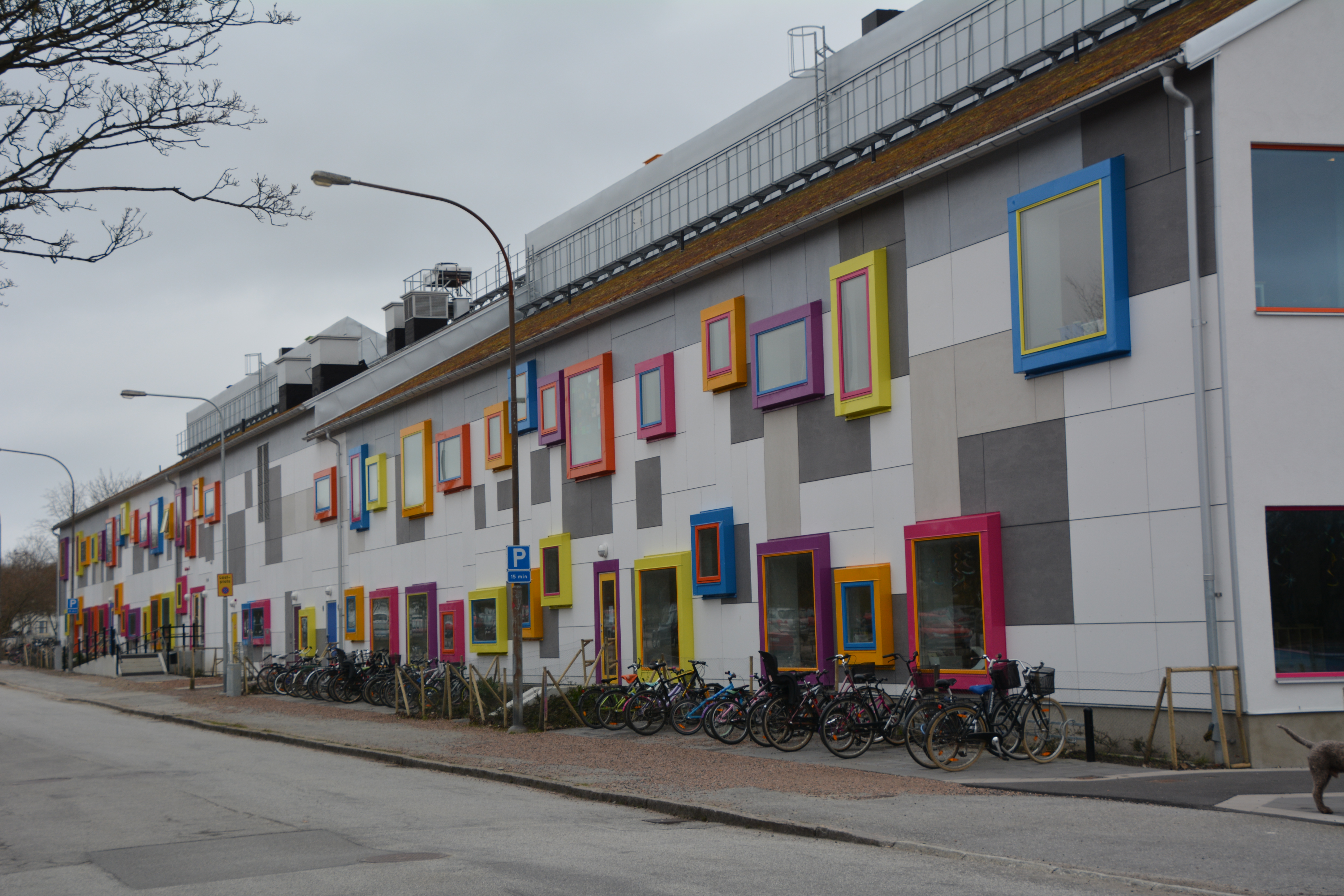 Skolan Munspelet, Östra Torn i Lund